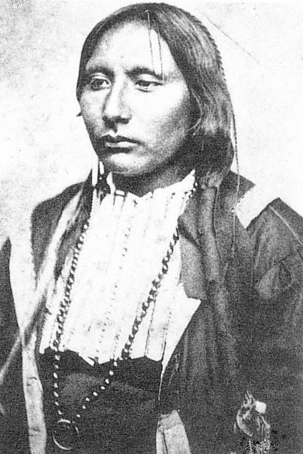 edted photograph of the Kiowa chief Big Tree, Addoeette, published before 1923, who was one of the models for the Indian Head nickel designed by James Earle Fraser and minted from 1913 through 1938 in the United States